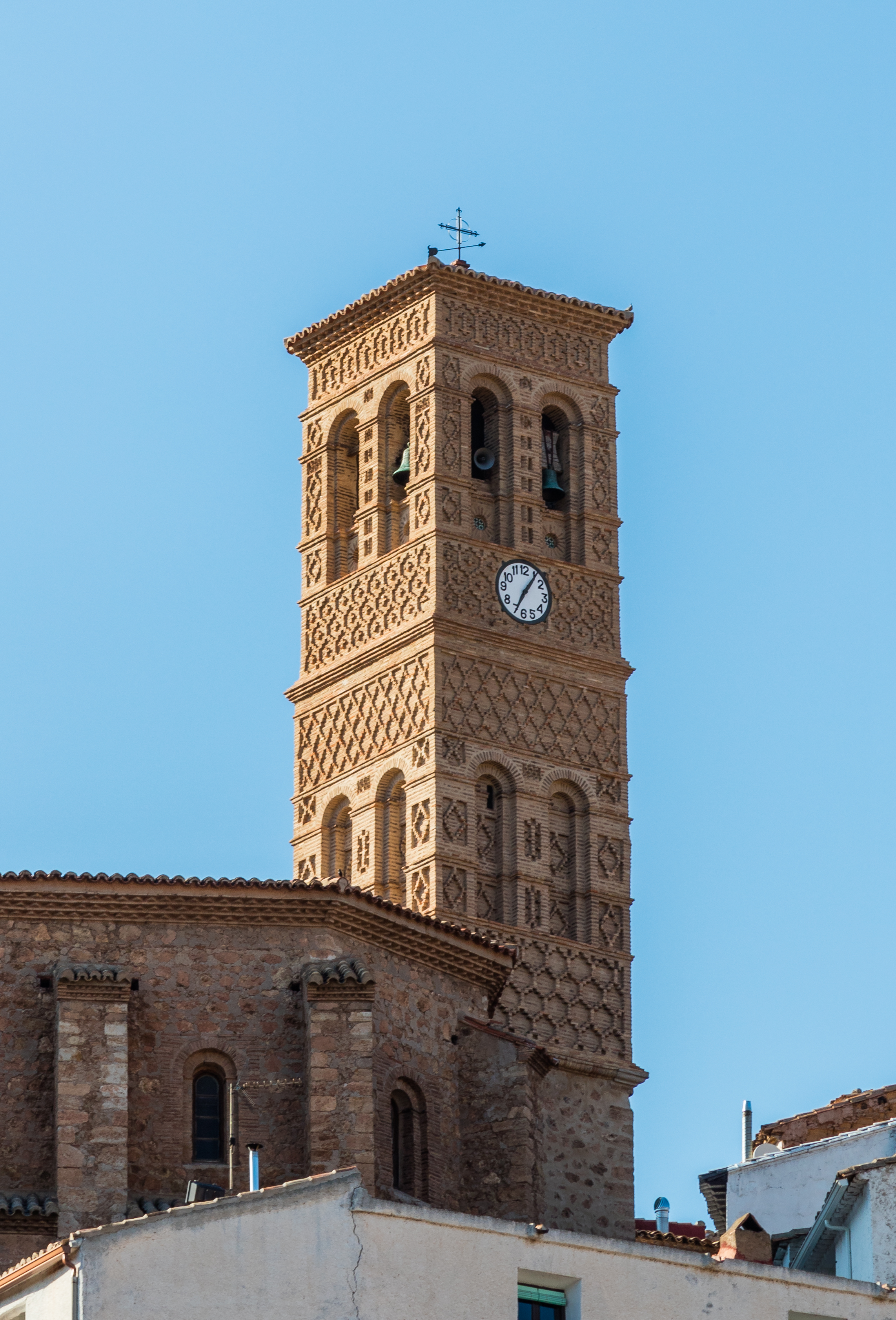 Tower of the church of St John the Baptist, Tierga, Saragossa, Spain